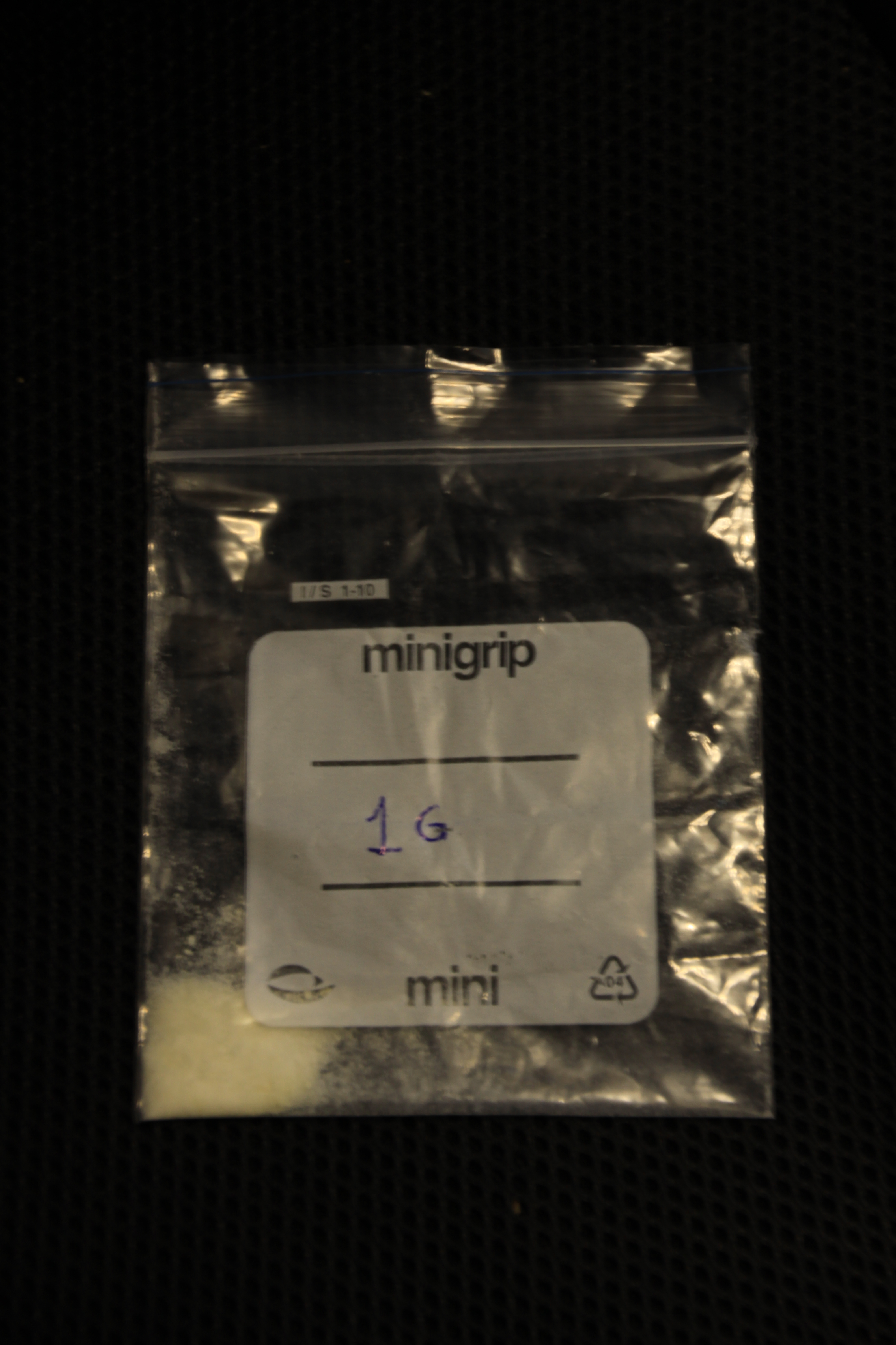 About one gram of street amphetamine (Dextro and Levo).